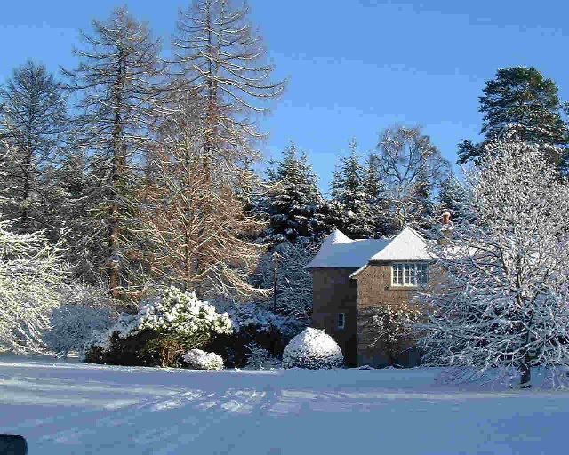 Rhu na Haven. Part of the policies of Rhu na Haven, designed by Lorimer.